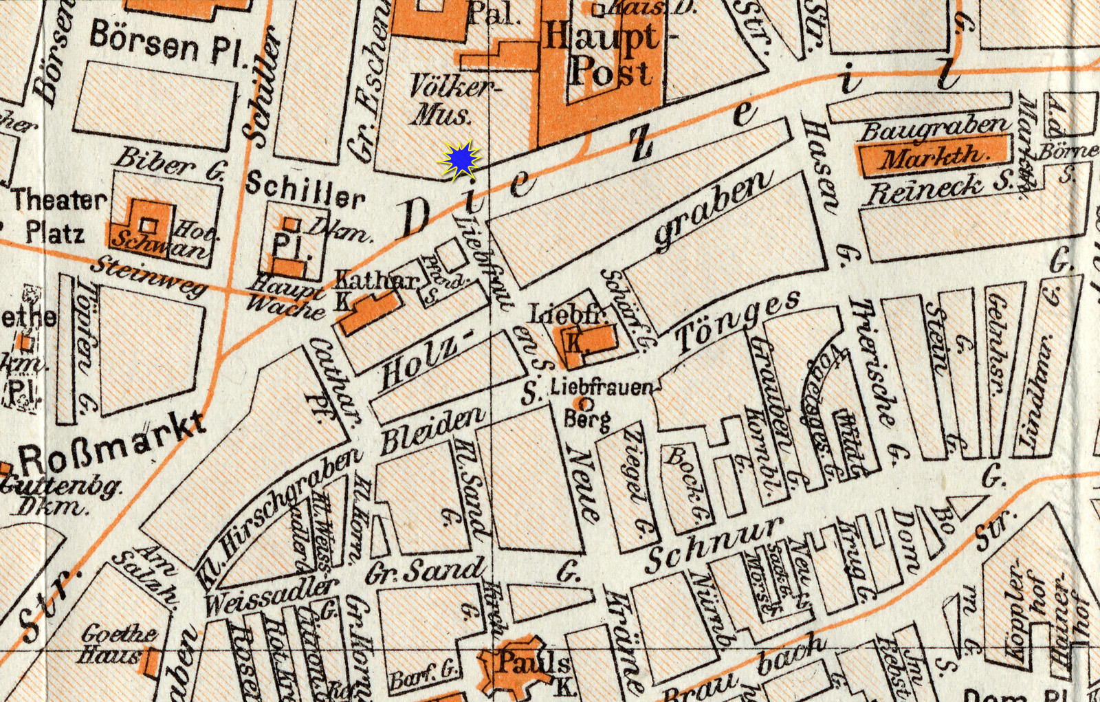 Frankfurt on the Main: Position of the Weidenhof as seen on a map of the old town and the inner city